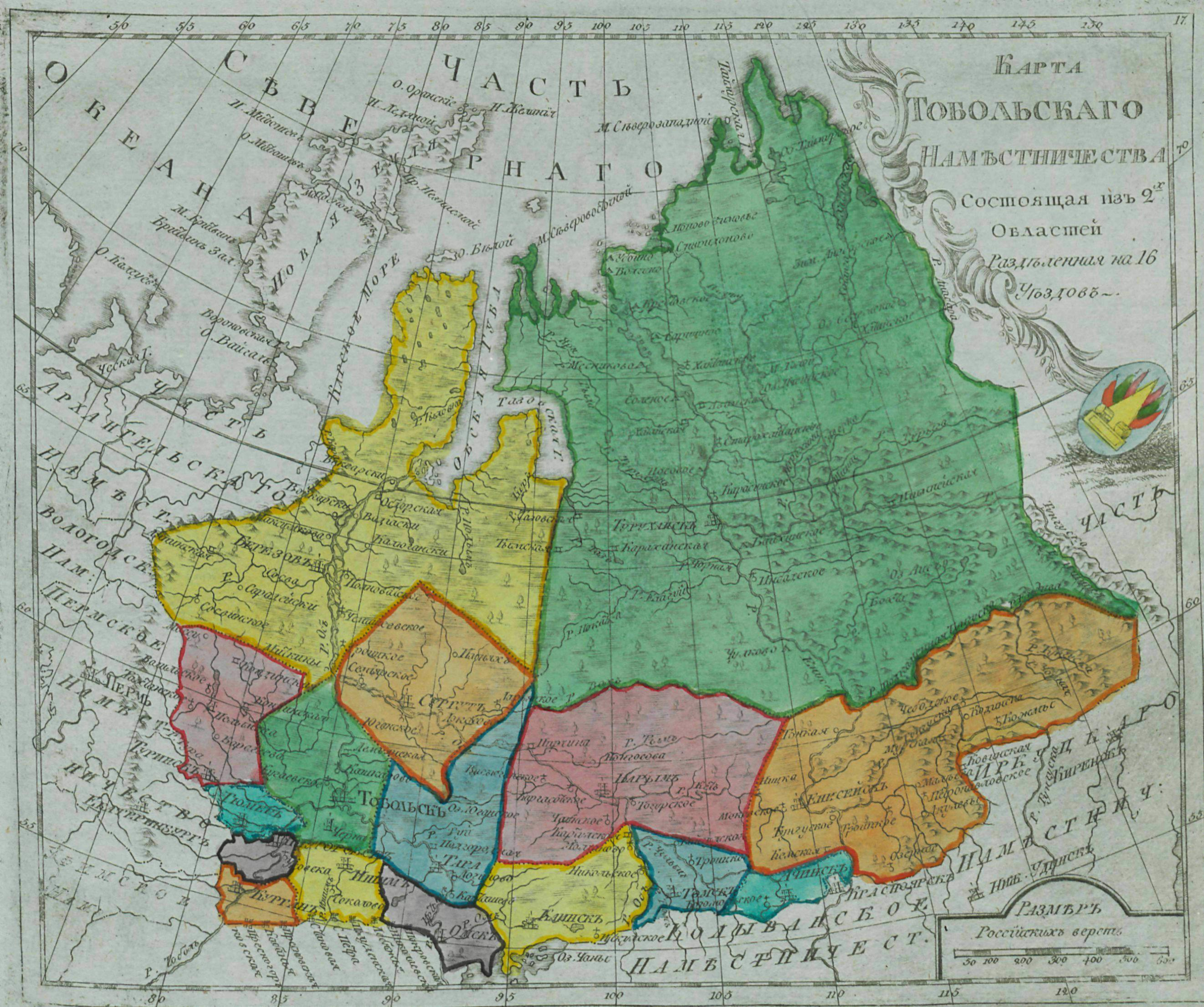 Small atlas of the Russian Empire (1792). Map of Tobolsk Namestnichestvo (sheet 17).